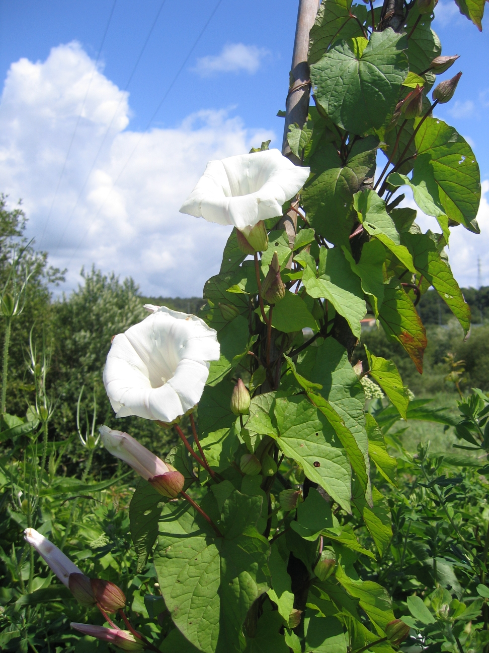 Calystegia sepium. This photograph was taken on 2008-06-07 at Getxo in the Bizkaia province of the Basque Country (Europe), using a Canon PowerShot S50 camera. The original size was 2592x1944 pixels, it was reduced to the present size (1296x972 pixels) using the IrfanView freeware program.